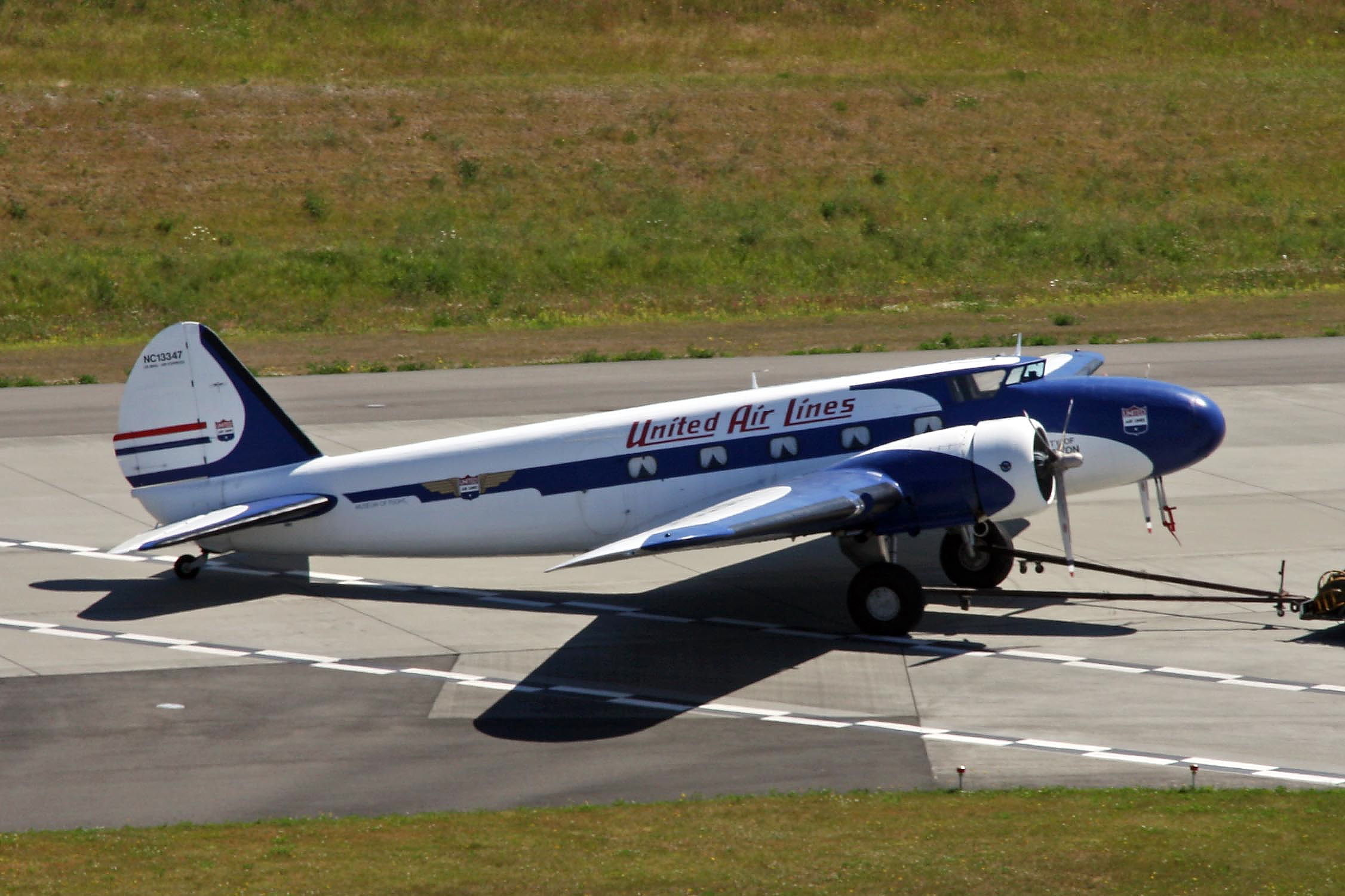 Parking next to the 'Future of Flight' building for a 'Test Pilots' dinner tomorrow (12-Jul-12)